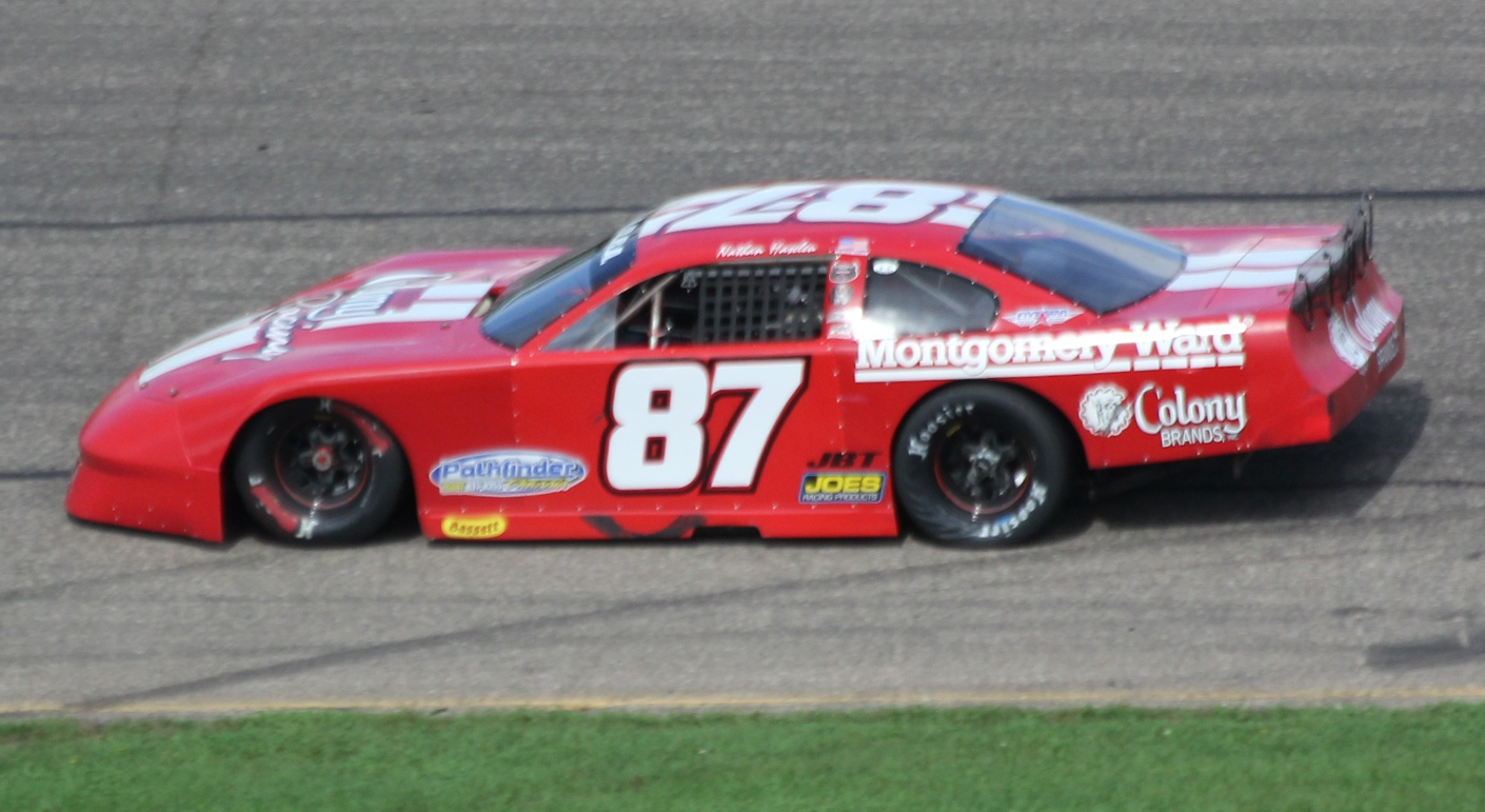 The TUNDRA Super Late Model series car of Nathan Haseleu at Golden Sands Speedway. He won the race in his first attempt in the series.